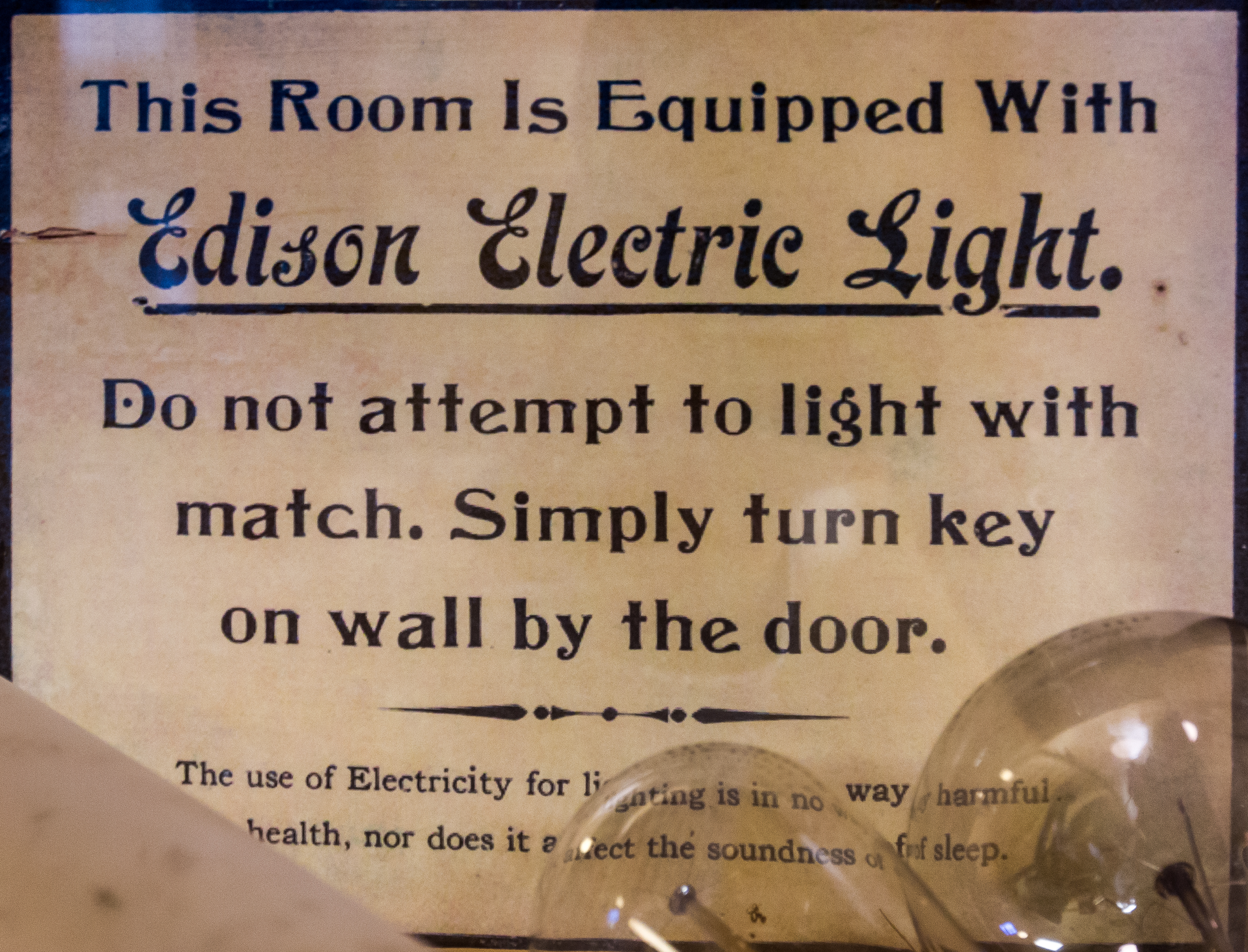 Sign "This room is equipped with Edison electric light", Deschutes Historical Museum, Bend, Oregon